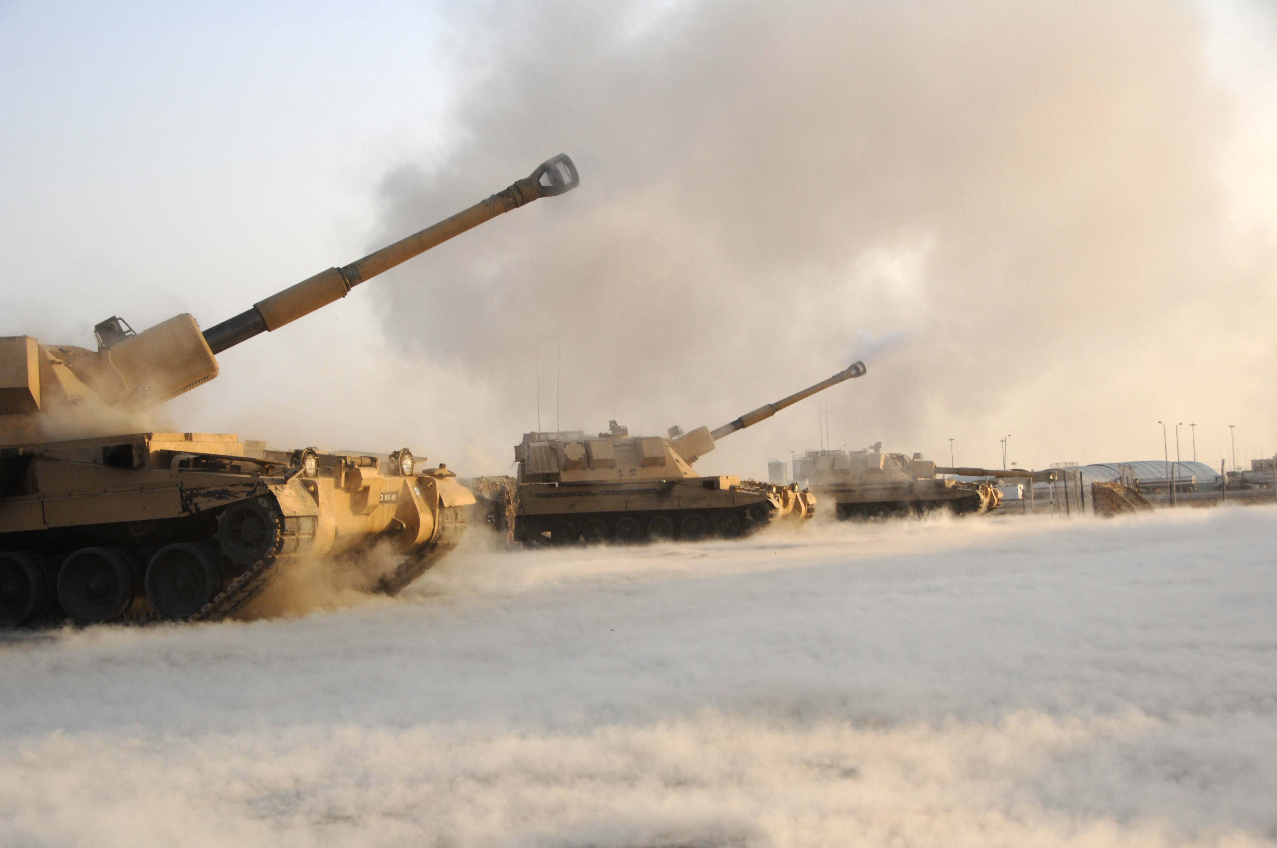 British soldiers from J Battery, 3rd Regiment, Royal Horse Artillery fire rounds to calibrate their AS90 155 mm self-propelled guns in Basra, Iraq, Aug. 28, 2008.